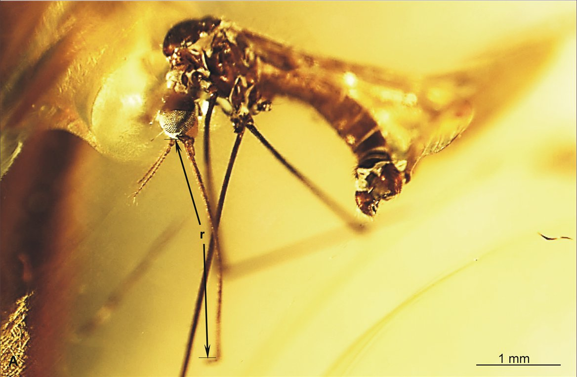 Morphology of Elephantomyia (E.) pulchella [9], No. MP/ 3336: A. body, latero-ventral view; B. head, lateral view; C. hypopygium, latero-ventral view Abbreviations: r—rostrom gx—gonocoxite; ing—inner gonostylus; intb—interbase; oug—outer gonostylus.